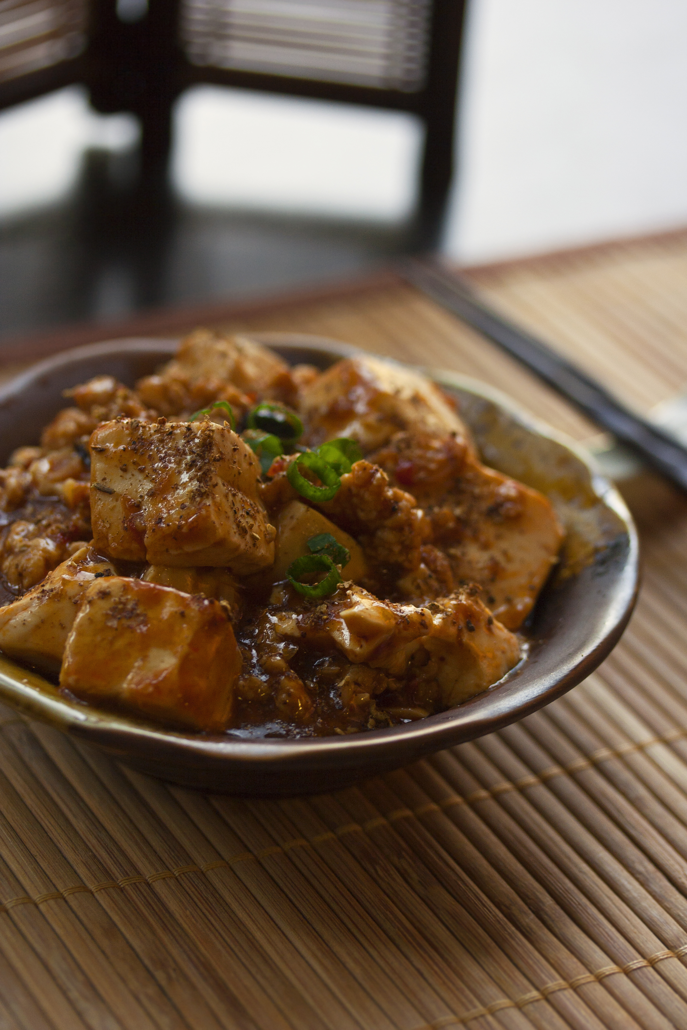 Chinese Mapo Tofu